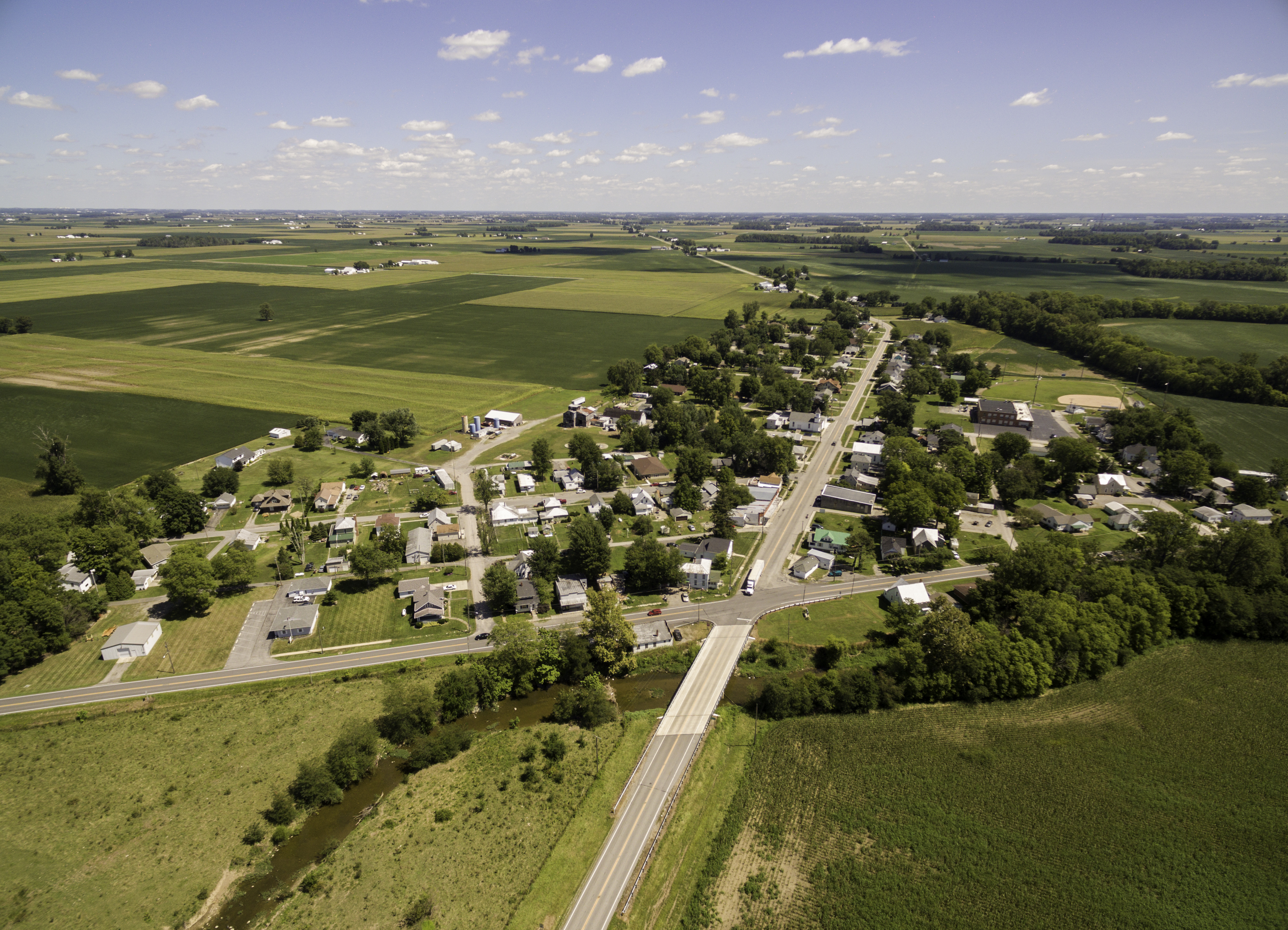 View looking east across Vaughnsville with the intersection of State Route 12, 189 and 115 seen from a DJI Phantom Professional 3 Drone